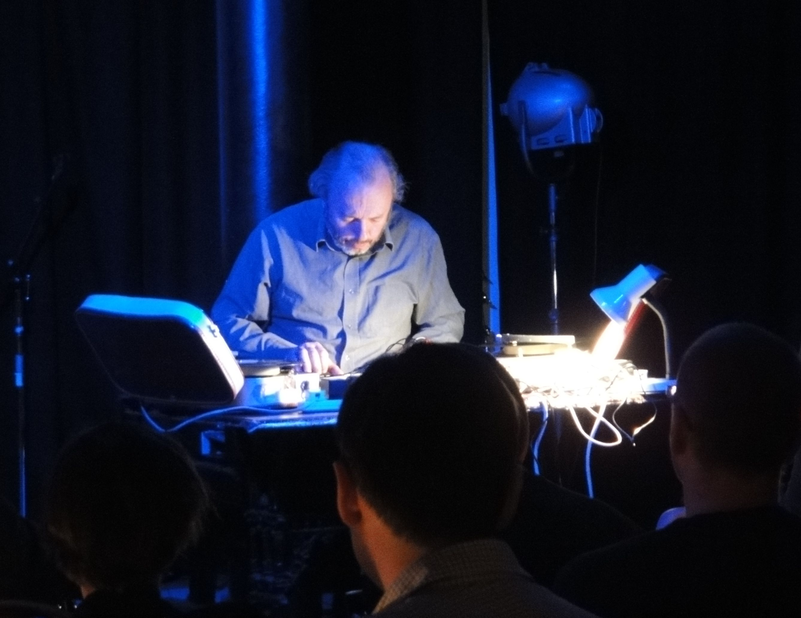 Experimental musician Philip Jeck performing at Jonny Mugwump’s Exotic Pylon event at the Vortex in London on September 16, 2011